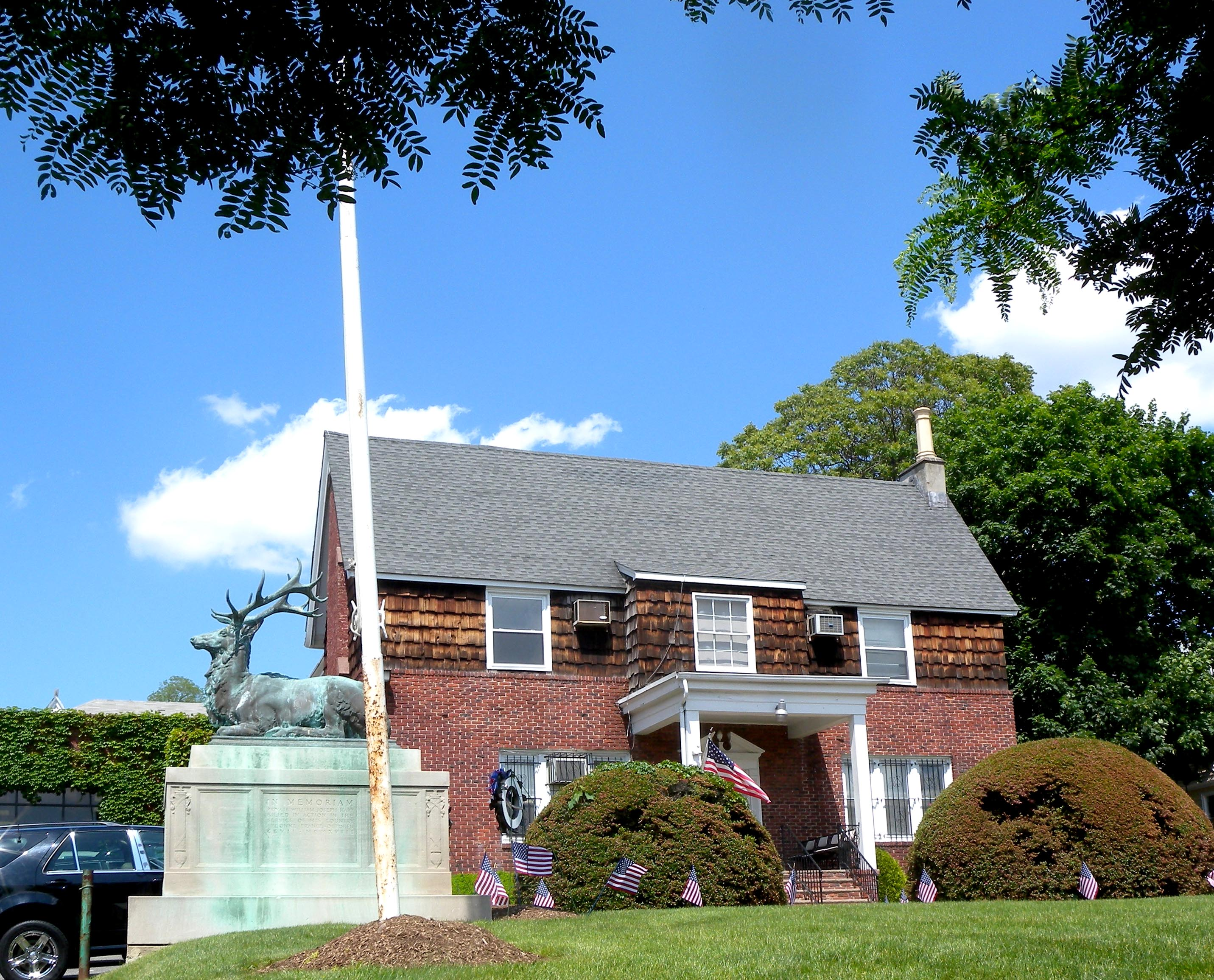 Looking up and northeast from Main and Bell Streets at the Elks Lodge in West Orange, New Jersey on a sunny midday.